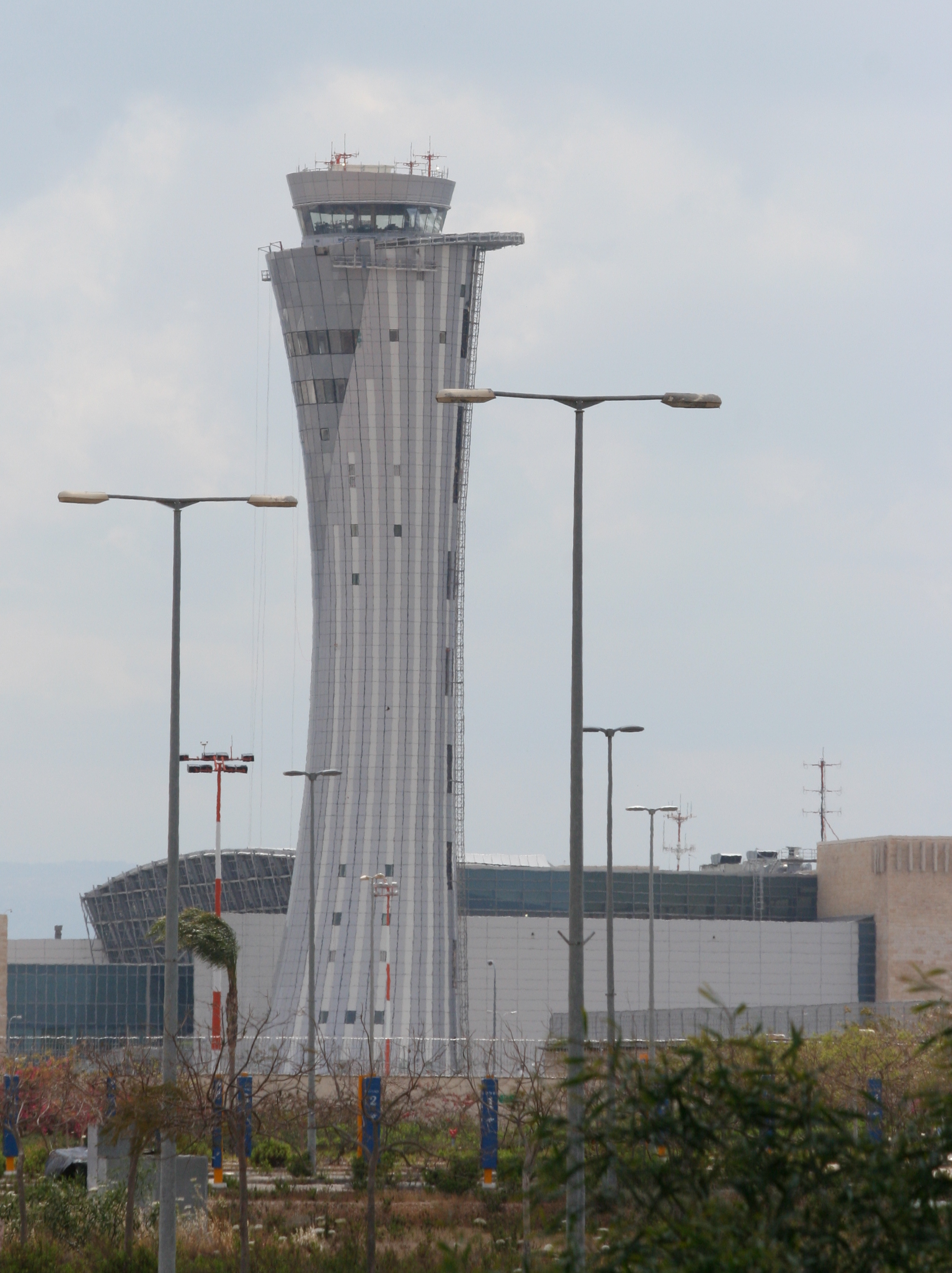 At Ben Gurion International airport.